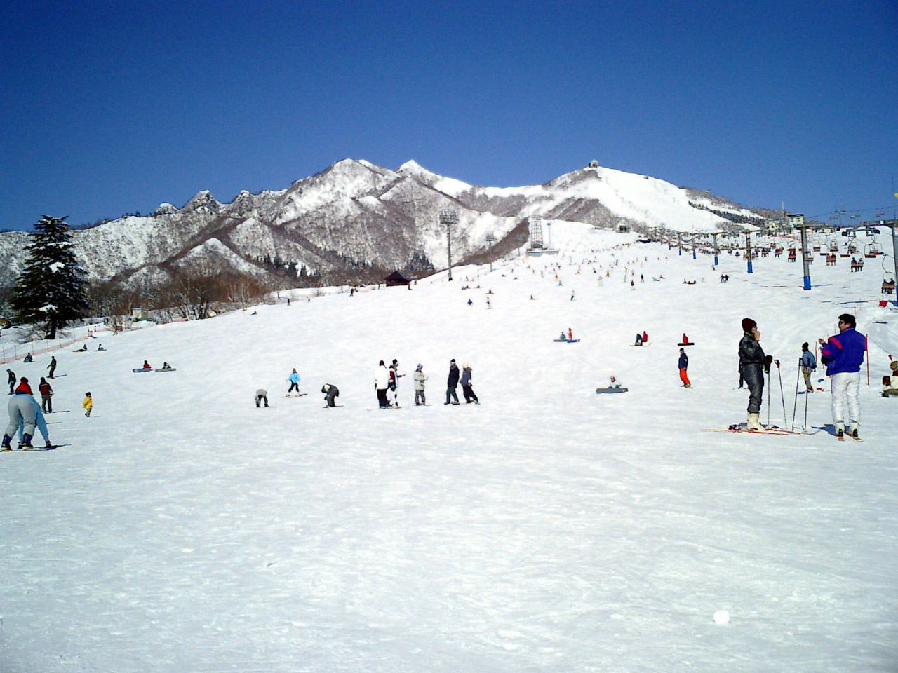 Iwappara Ski area